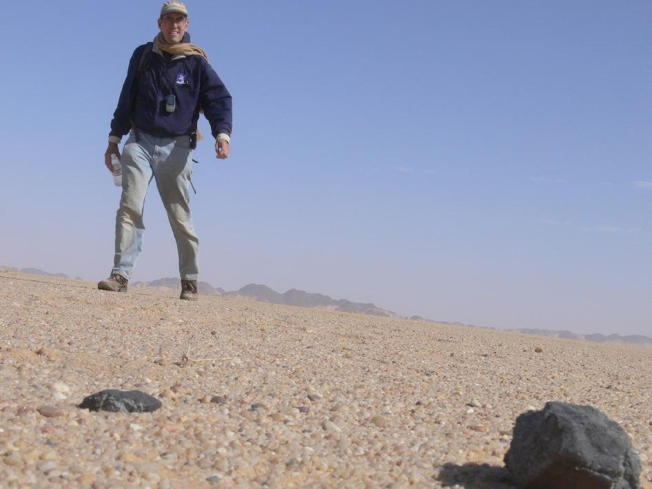 Almahata Sitta fragment. On Feb. 28, 2009, Peter Jenniskens, with help from students and staff of the University of Khartoum, found his first 2008TC3 fragment. Nubian Desert, Sudan.